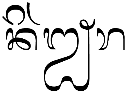 Word nirjhara (pond) in Balinese script.